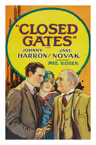 Poster for the 1927 film, Closed Gates (Photo by Buyenlarge/Getty Images)